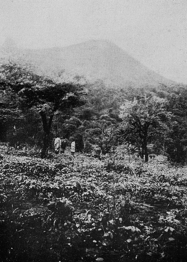 Forested area of the Mabla Mountains (Djibouti), c. 1930. Photograph from a documentation on French Somaliland published on the occasion of the International Colonial Exhibition of 1931.